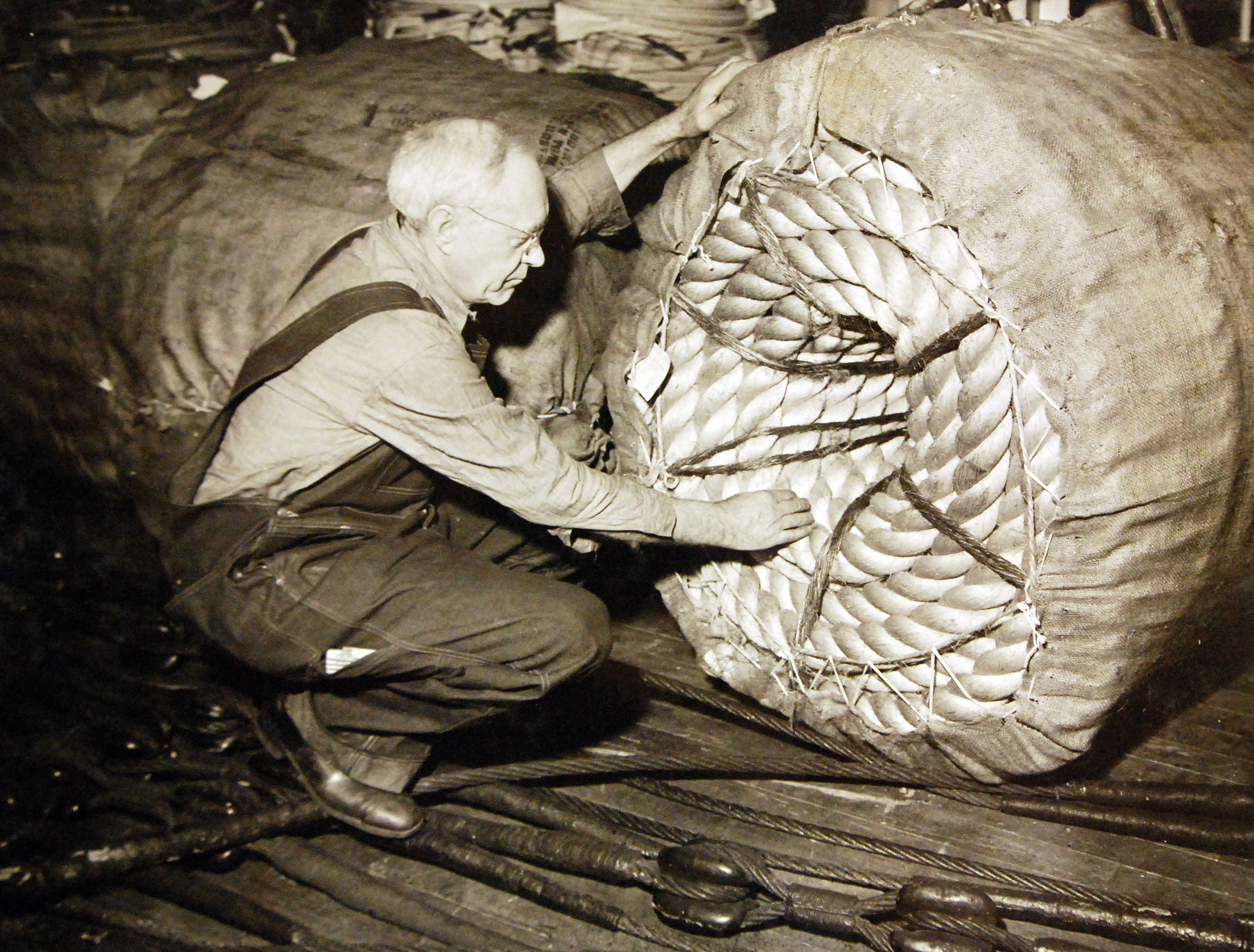 Lot-2066-4: New York (Brooklyn Navy Yard), New York City, New York. “Another String-Saver” Uncle Sam needs lots of out-sized cord for his Navy. Here manila hawser is examined for defects before going into service. Office of War Information Photograph, circa 1941. Courtesy of the Library of Congress. (2016/04/14).